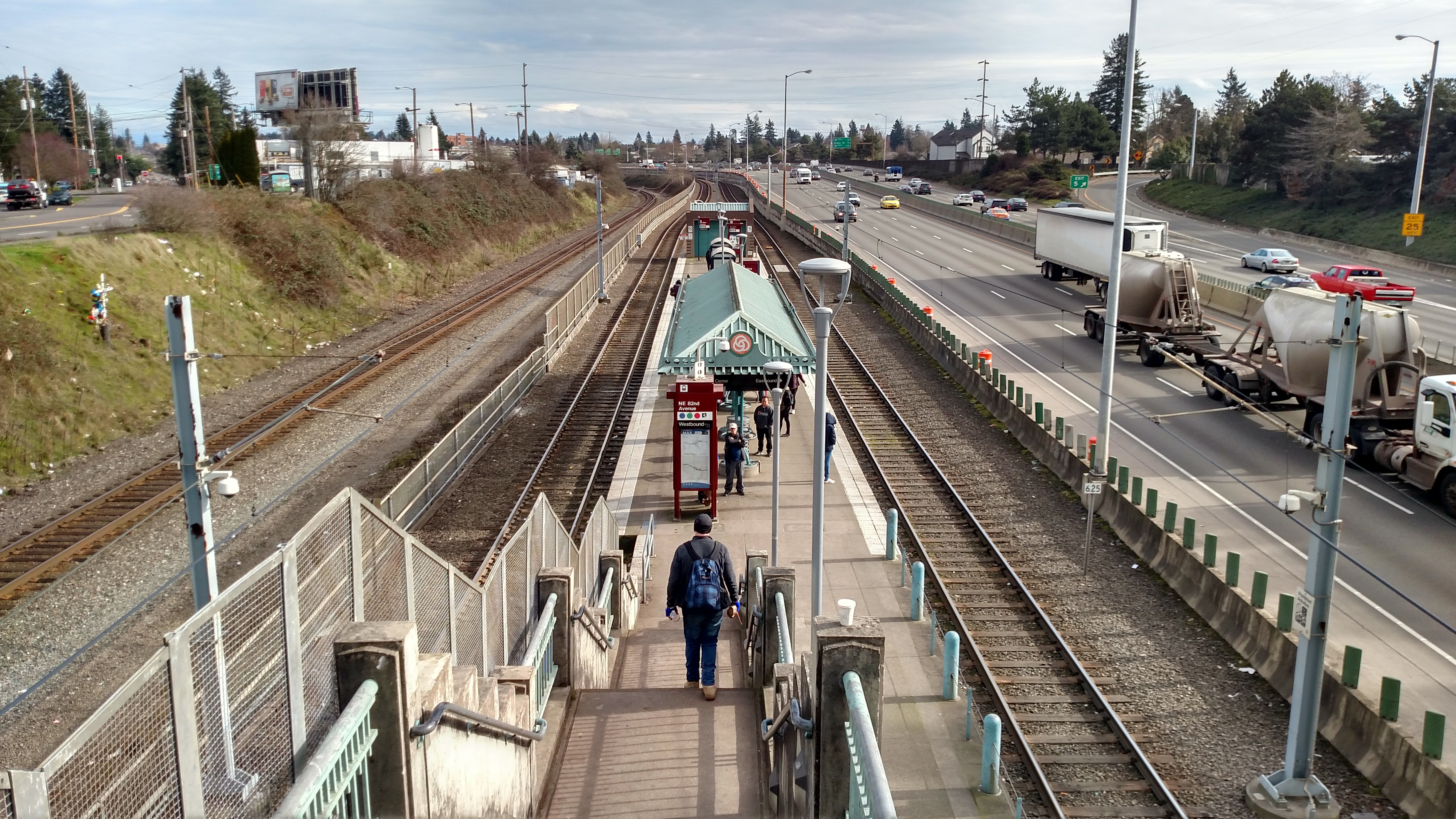 Northeast 82nd Avenue station in February 2018